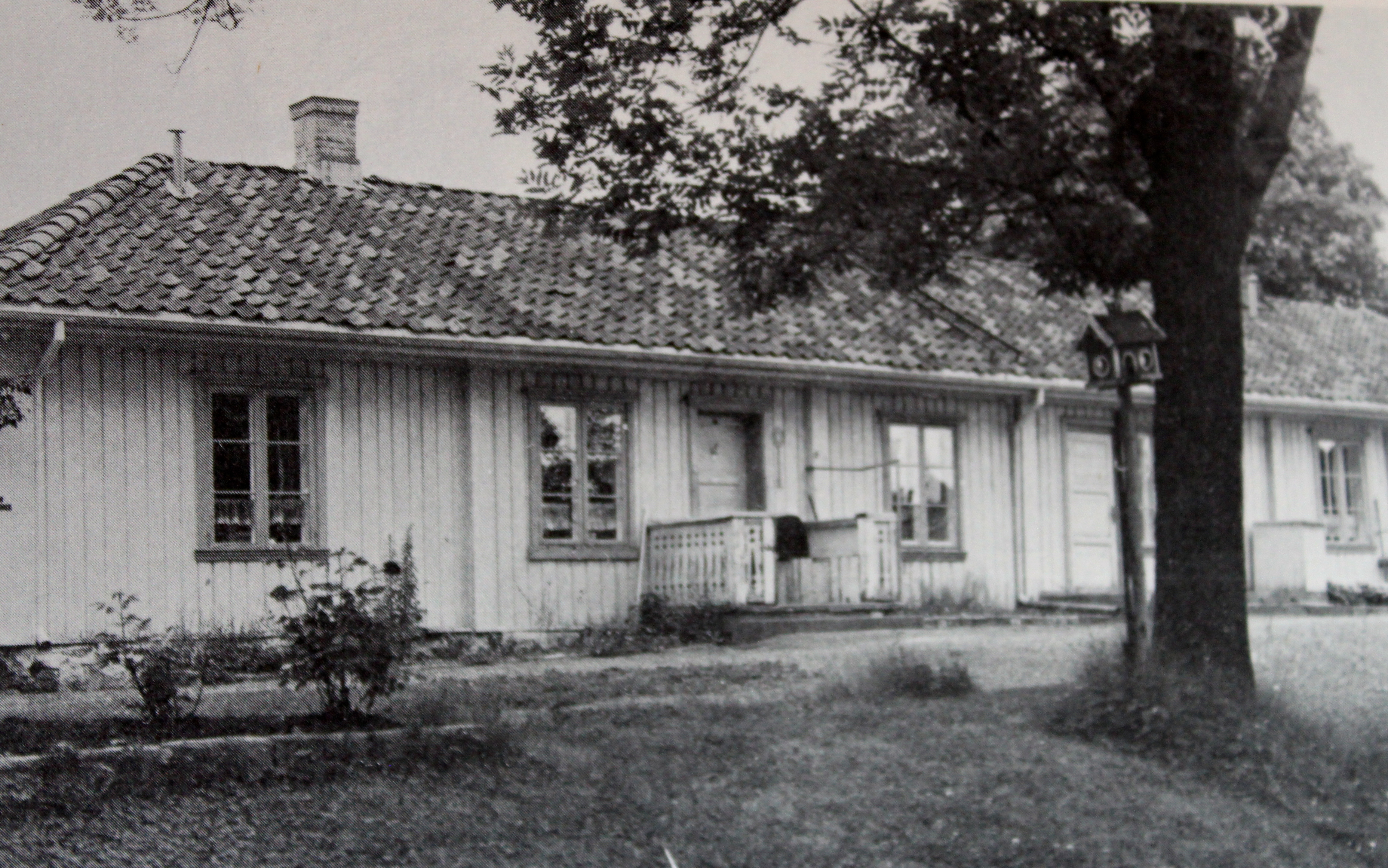 Gården før rehabilitering